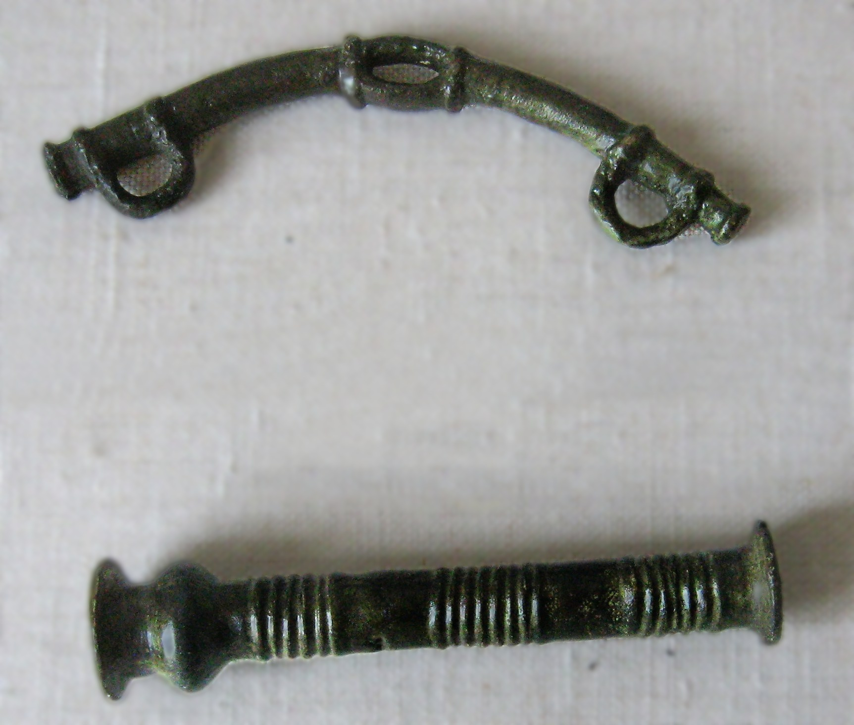 Roman Bridle of Contiomagus